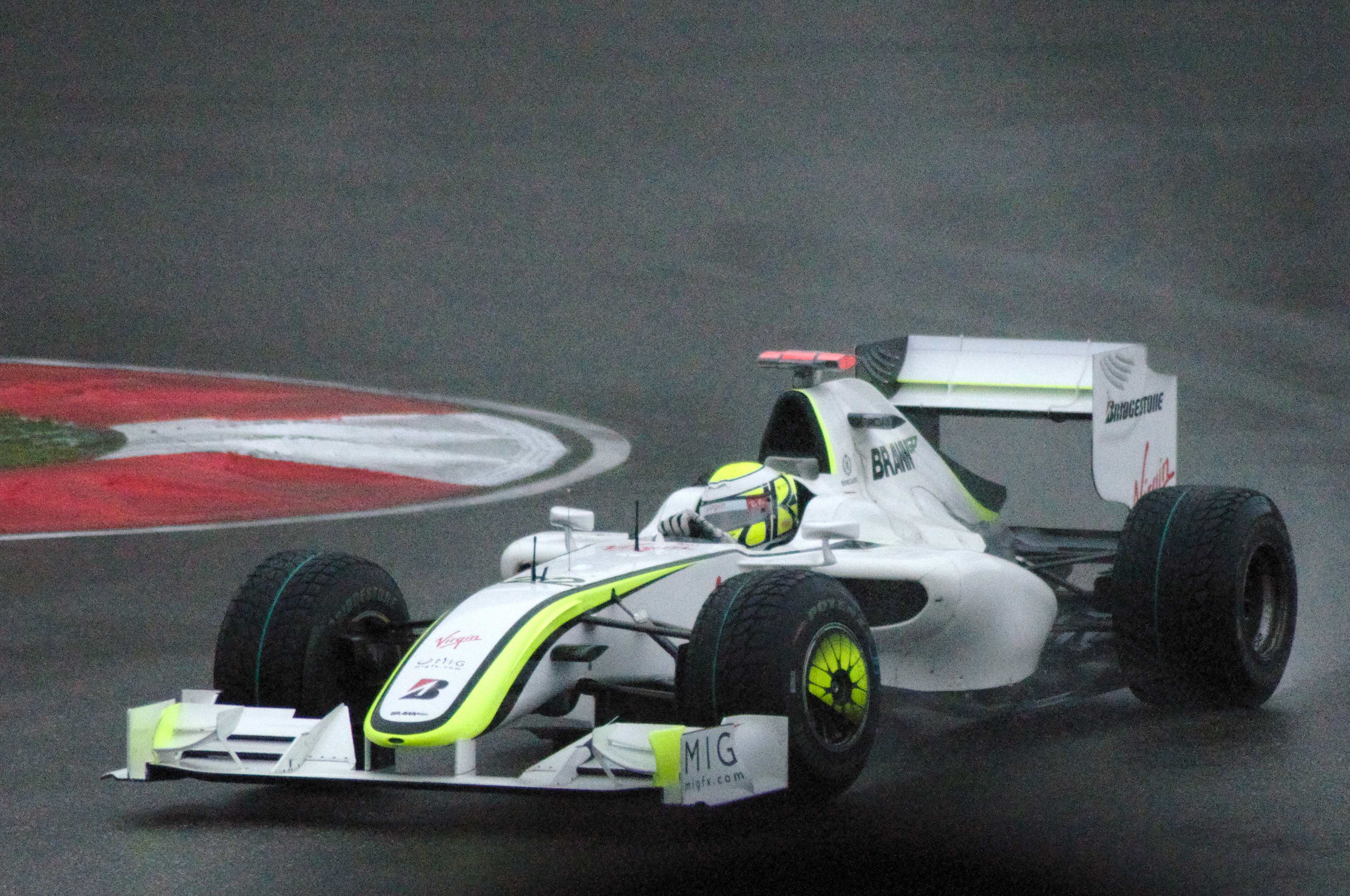 Jenson Button driving for Brawn GP at the 2009 Chinese Grand Prix.